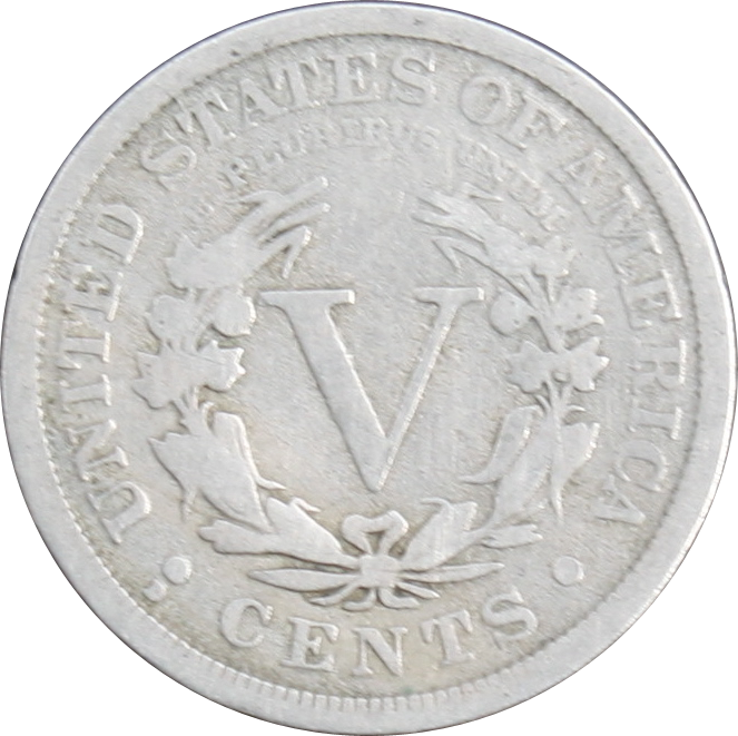 Liberty Head nickel, 1912-D